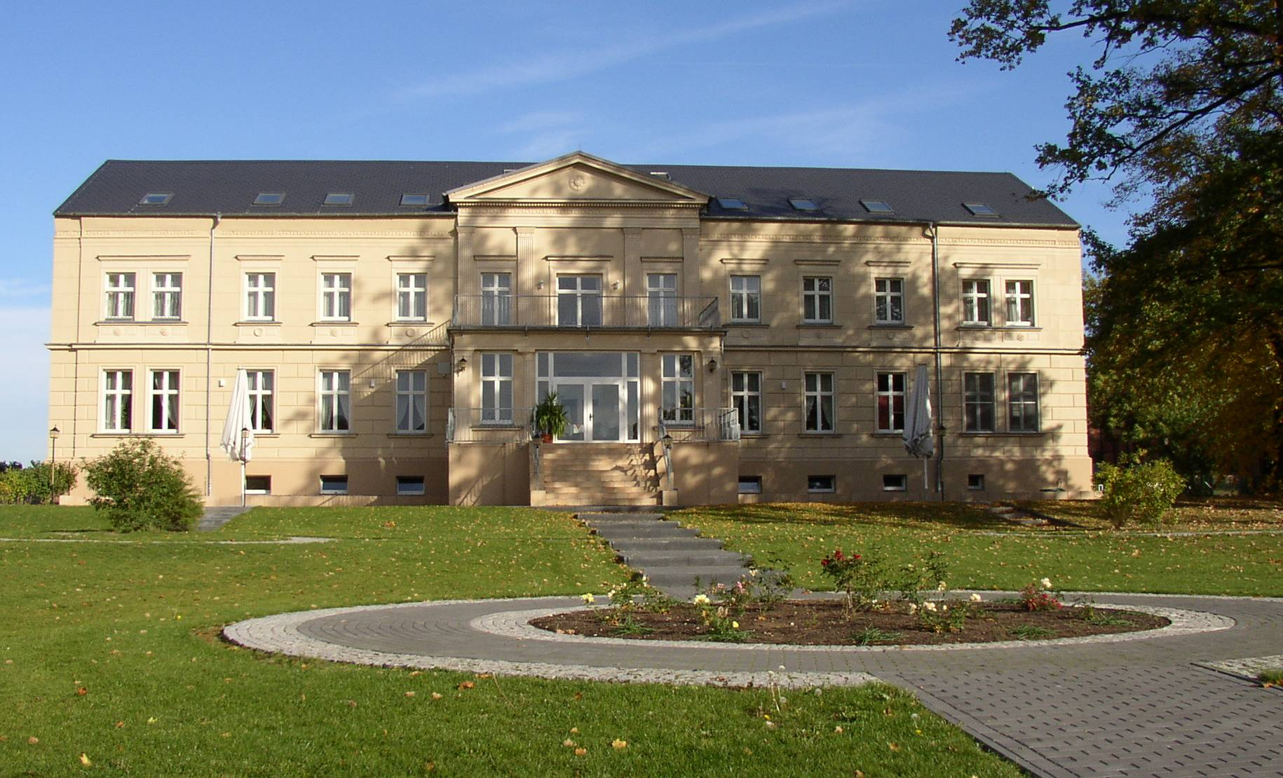 Manor house in Neuruppin-Gnewikow in Brandenburg, Germany